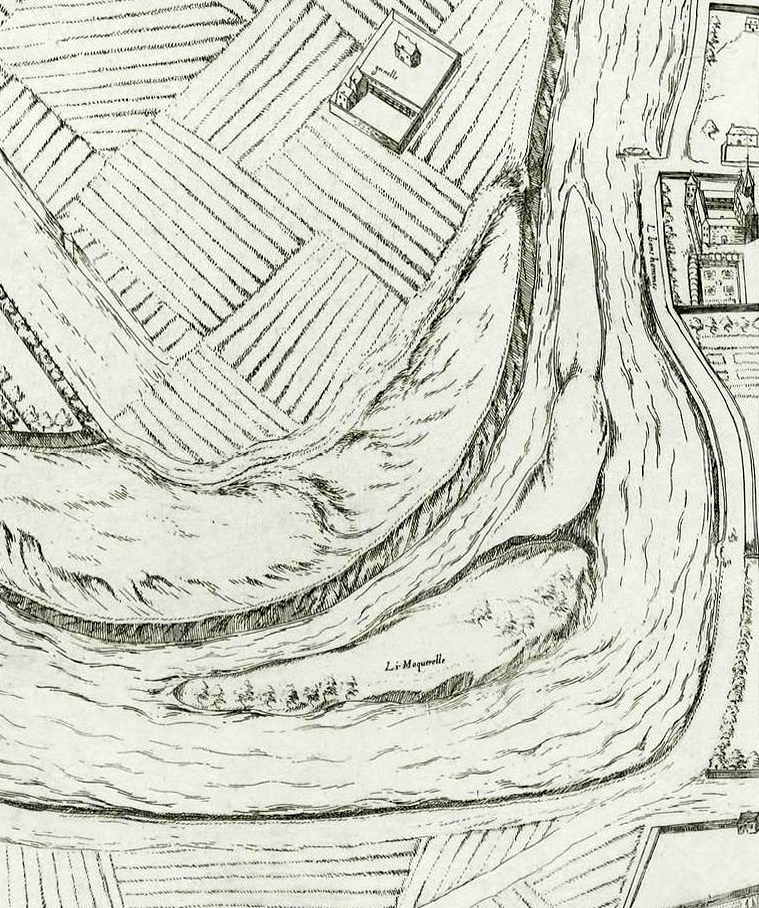 Île Maquerelle